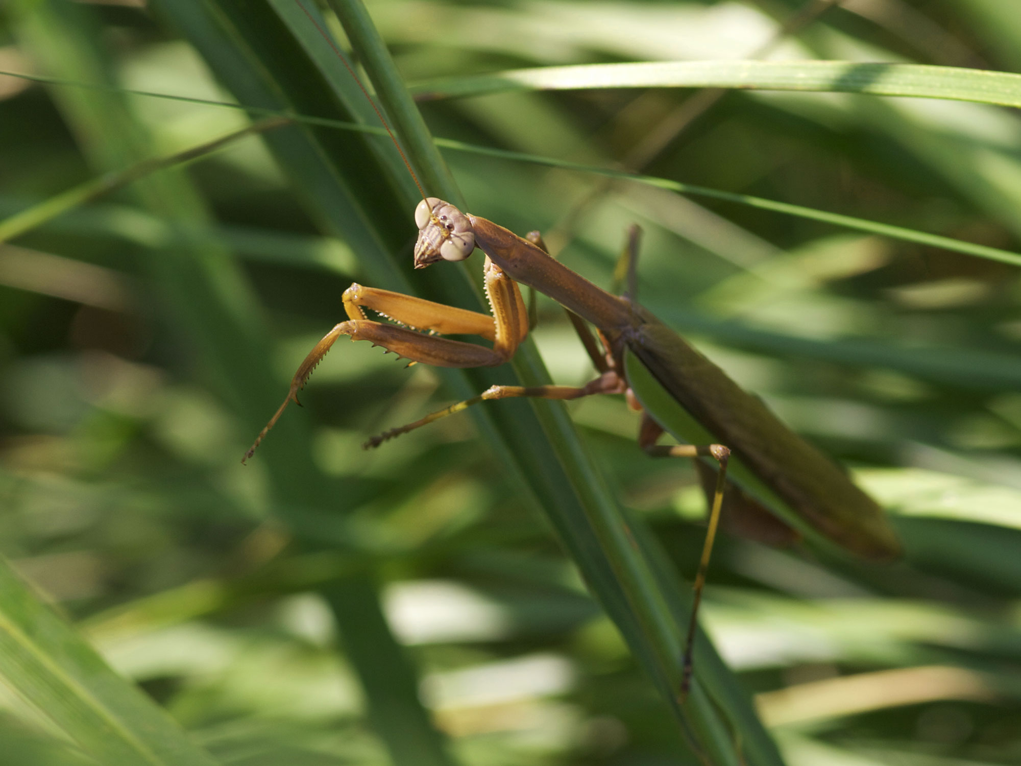 Tenodera aridifolia sinensis. Shaw Nature Reserve, Gray Summit, Missouri, USA. 3 September 2011.